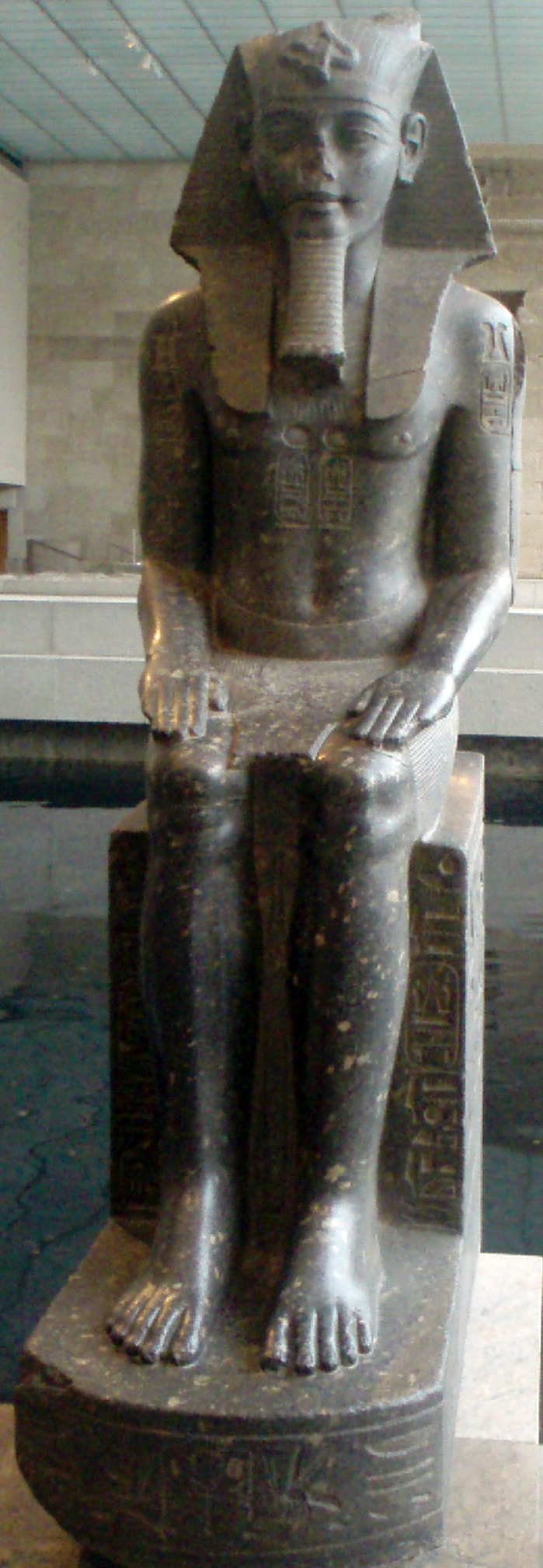 One of the two colossi of Amenhotep III on display at the Metropolitan Museum, originally from the temple of Luxor. 18th dynasty, circa 1390-1353 B.C. Both were later usurped by Merneptah who moved them and had them re-inscribed with his titularly. AN 22.5.2